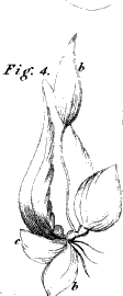 Root of Iris Xiphium, showing new bulb production